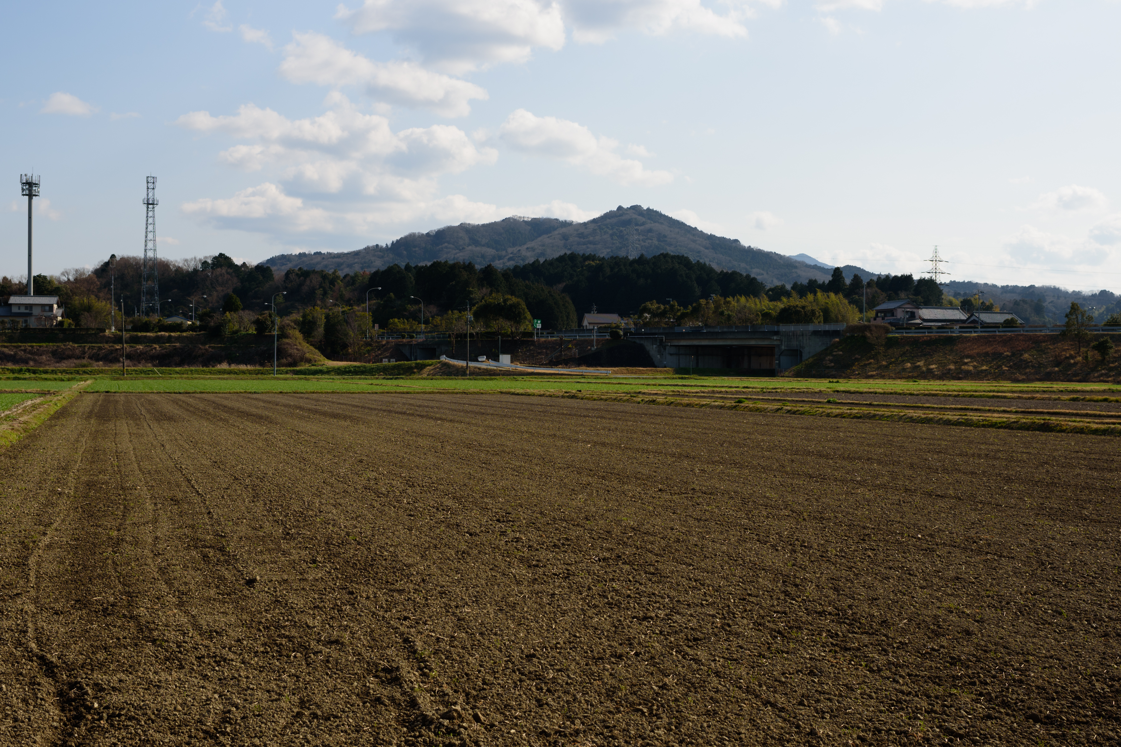 View of Mt. Masugata and Mt. Azaka, Ruins of Azaka Castle, from Ureshino-cho, Matsusaka, Mie